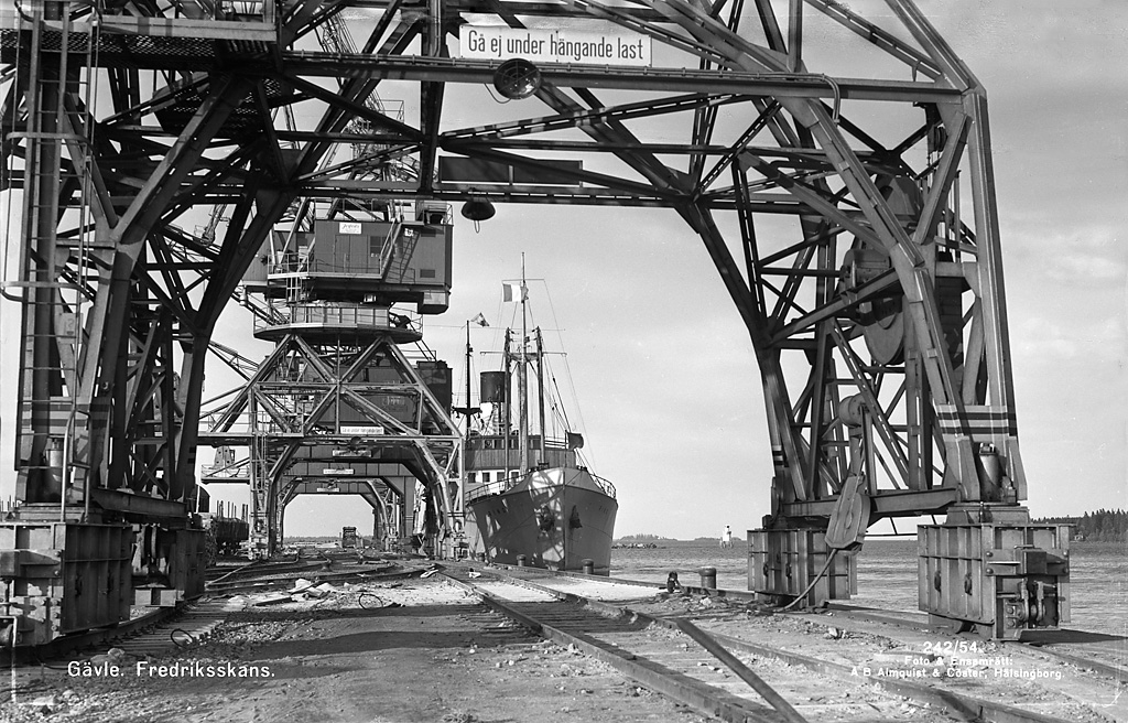 The harbour at Fredriksskans in Gävle. Cranes and boat. The sign says: "Do not walk under hanging cargo." Hamnen vid Fredriksskans i Gävle. Kranar och båt. Parish (socken): Gävle Province (landskap): Gästrikland Municipality (kommun): Gävle County (län): Gävleborg Photograph by: Unknown. Almquist & Cöster Date: 1940-1959 Format: Cliché, glass plate with text Persistent URL: Read more about the photo database (in english)